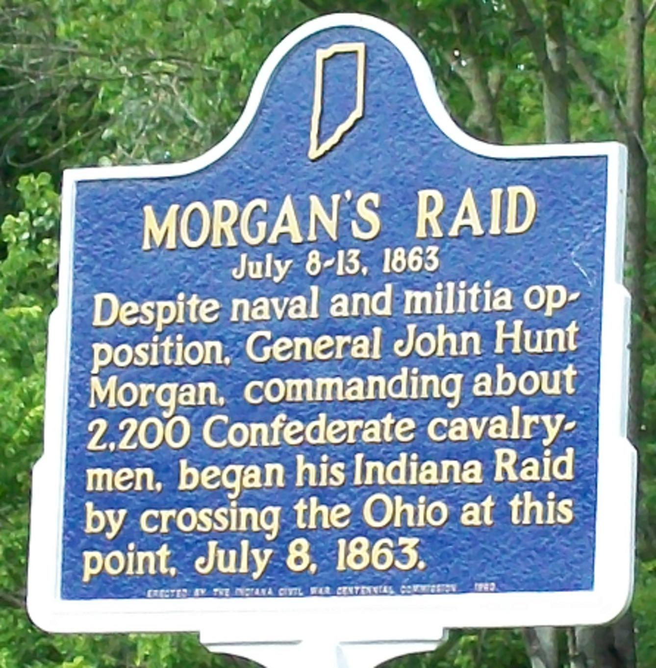 A photo of a historical marker located just north of Morvin's Landing, quarter mile east of Mauckport Indiana. Marks the location where Morgan and his men crossed the Ohio River and began their raid into Indiana